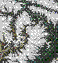 Tsangpo Gorge, In center of picture is Namcha Barwa Satellite photo from US government